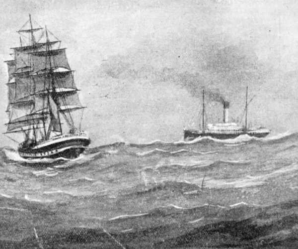 Creator unknown. Black and white print showing Loch Vennachar last seen by S.S. Yongala. Item held by State Library of Victoria as part of the Malcolm Brodie shipping collection. Image number: H99.220/649. Format: print ; 10.0 x 11.4 cm.